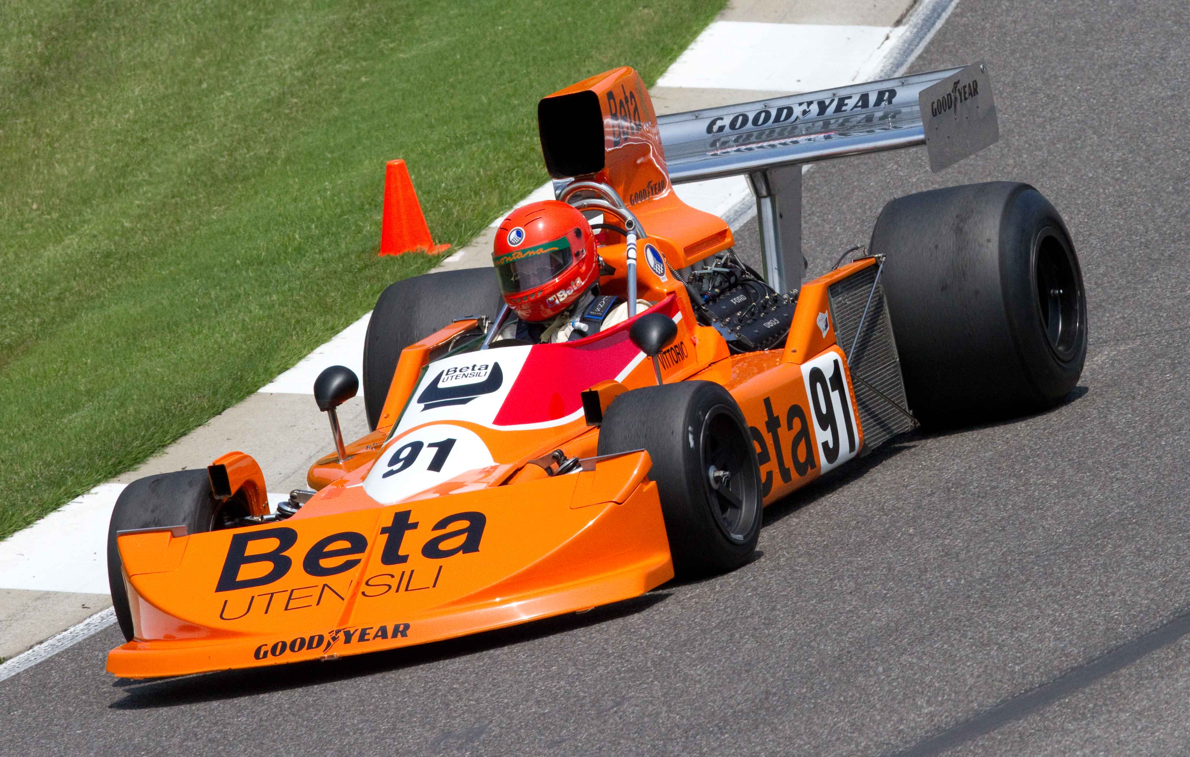 March 751 at Barber Motorsports Park, 2010